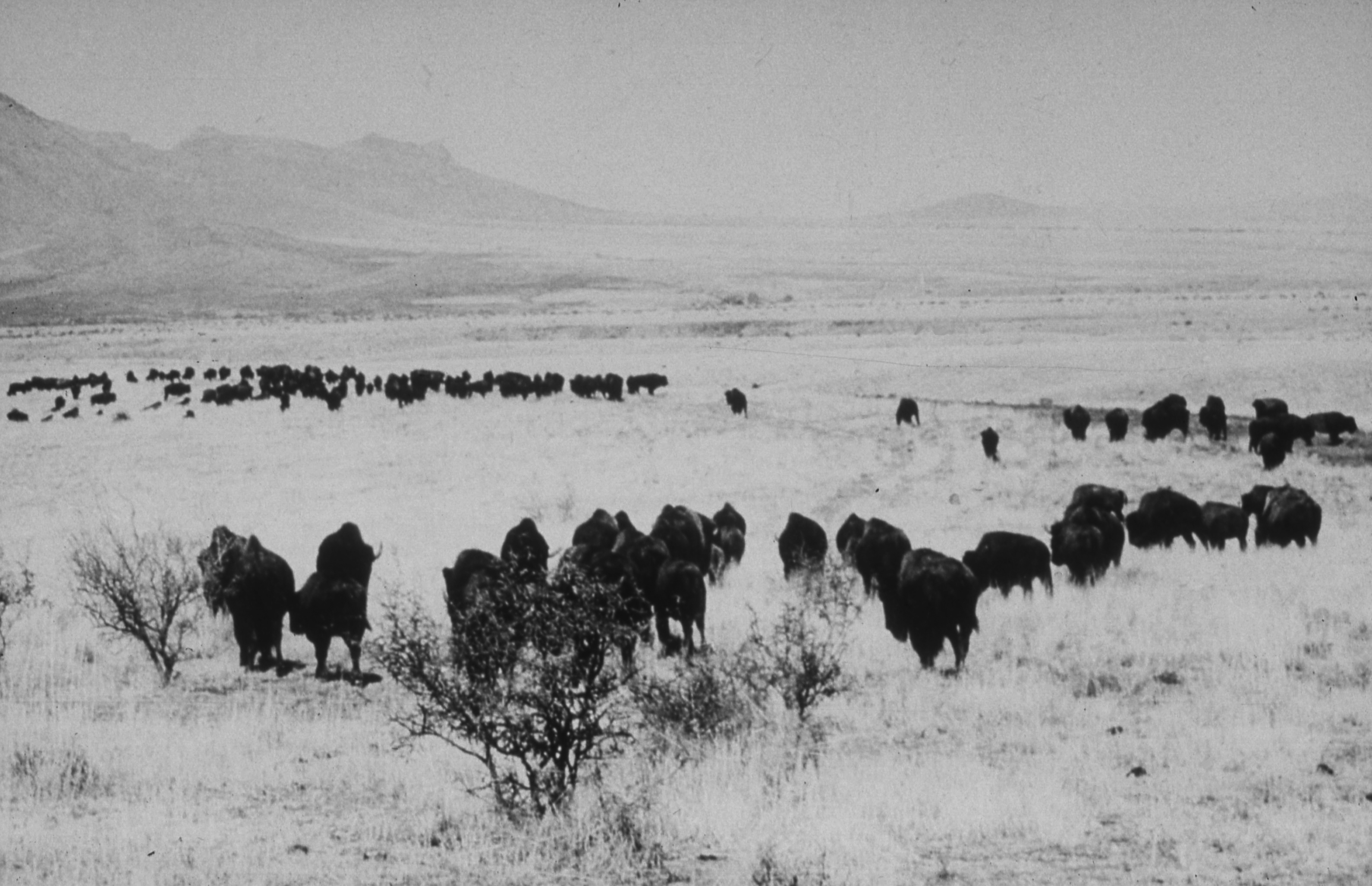 During the 1950s, during the brief closure of Fort Huachuca, the Arizona Wildlife Commission kept a herd of buffalo on the post.